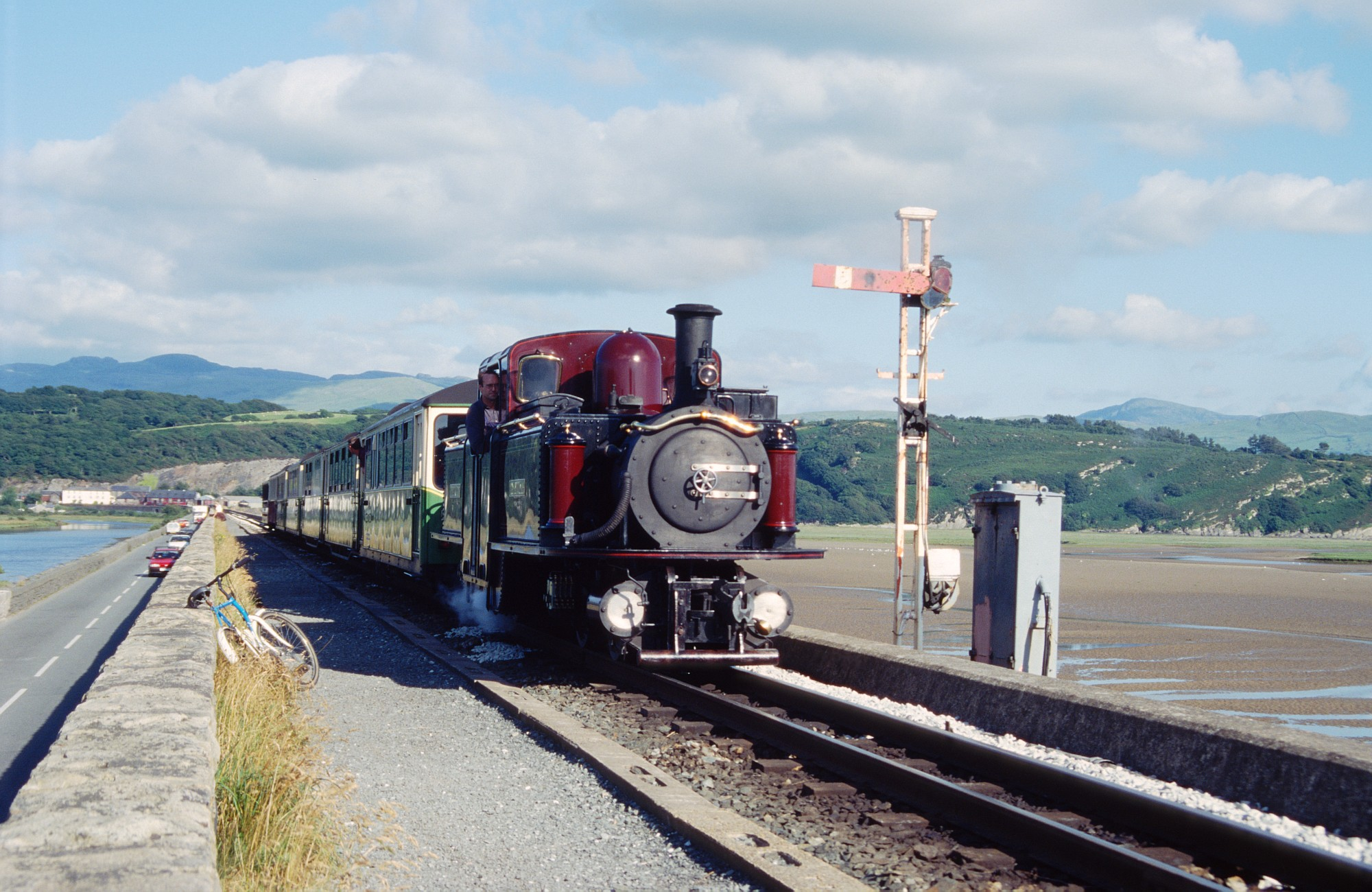 en: Ffestiniog Railway train with double Fairlie "Merddin Emrys" approaching Porthmadog on the Cob de: Ein Zug der Ffestiniog Railway mit Double-Fairlie-Lokomotive "Merddin Emrys" nähert sich Porthmadog auf dem Damm "The Cob".